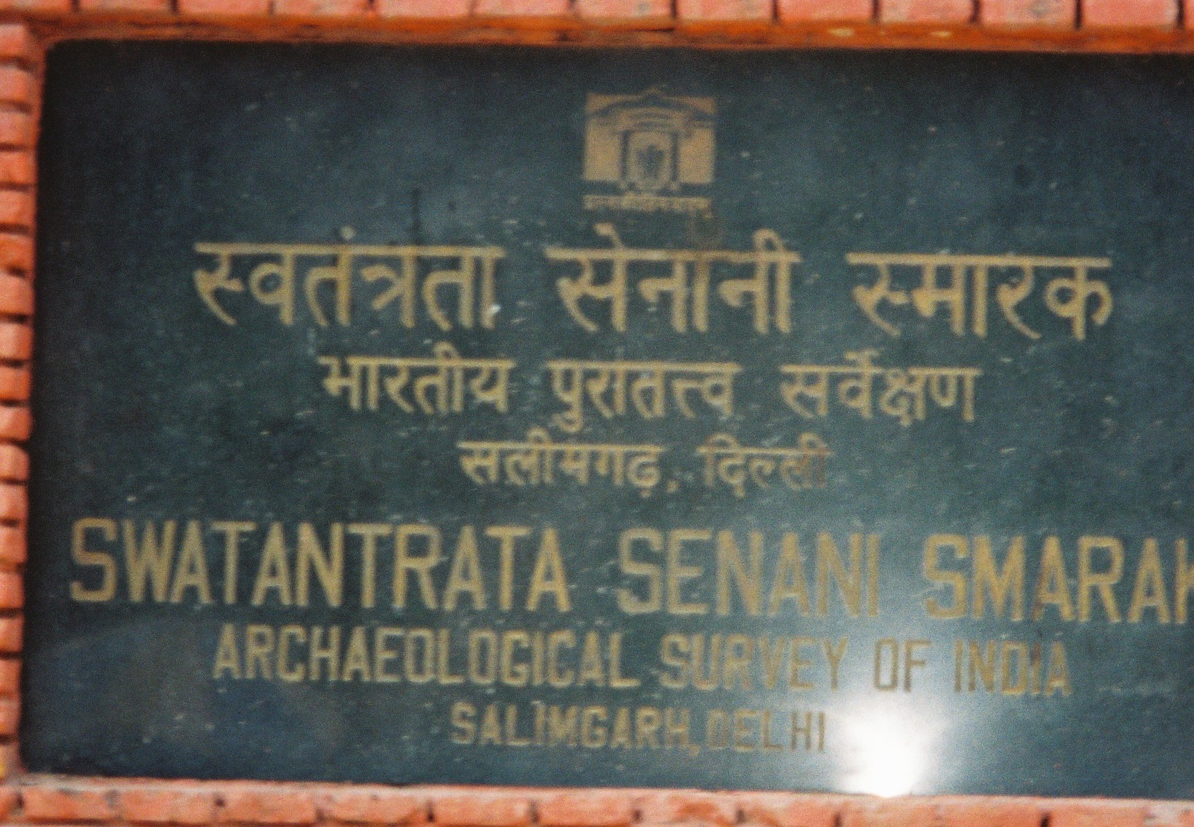 Plaque at entrance to salimgarh Fort declaring it as Swatantra Senani Smarak